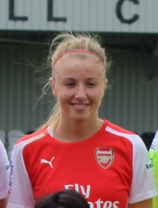 Arsenal Ladies first team photo in the new Puma kit